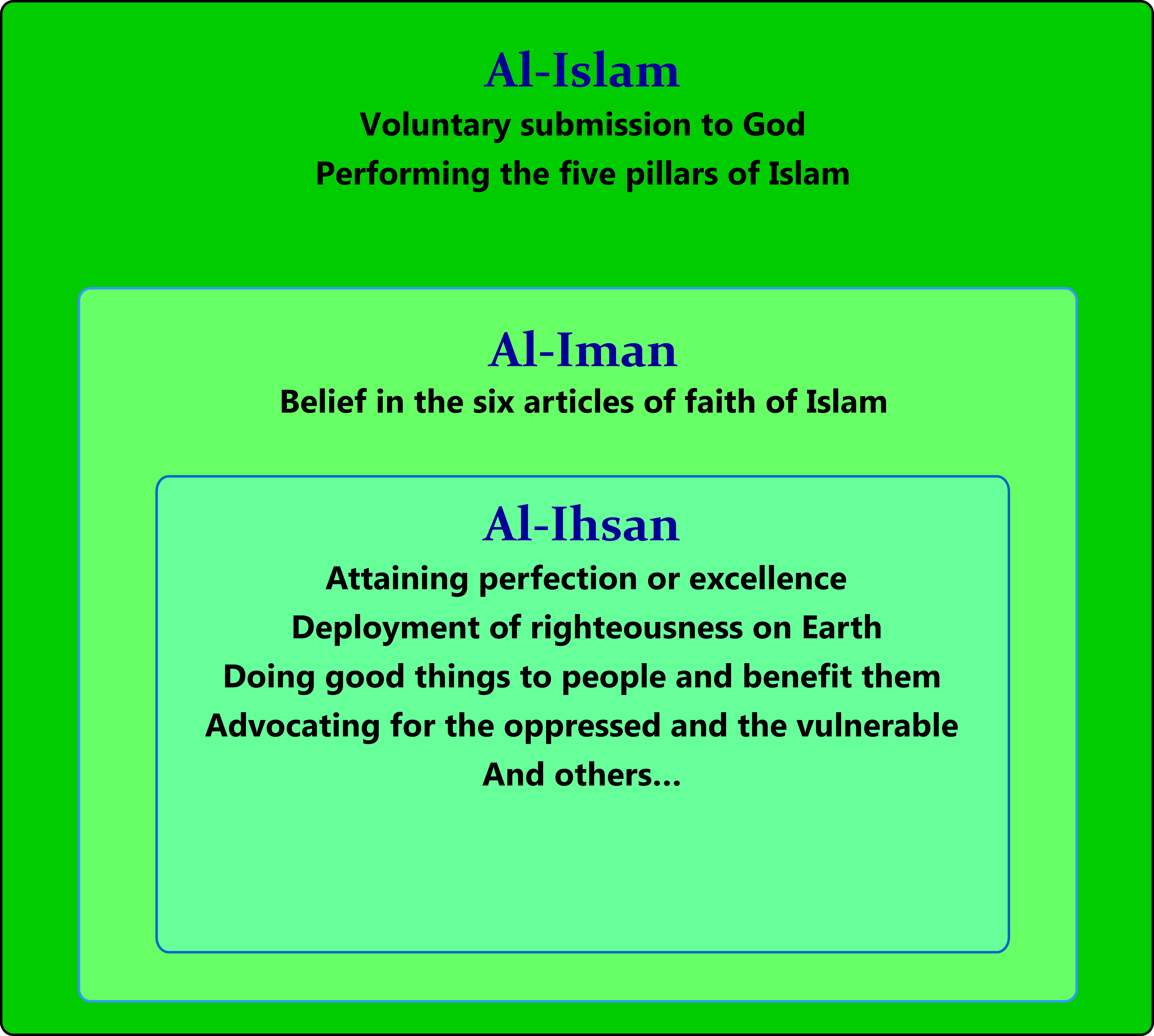 Diagram three dimensions of Islam